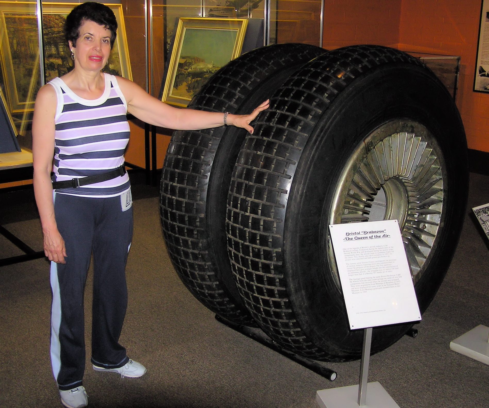 Main undercarriage wheel of the Bristol Brabazon, preserved at the Bristol Industrial Museum, Bristol, England. Woman (photographer's wife) is 5 feet 4 inches tall. In 2007 this museum was permanently closed for conversion to the Museum of Bristol. The exhibits are in storage.